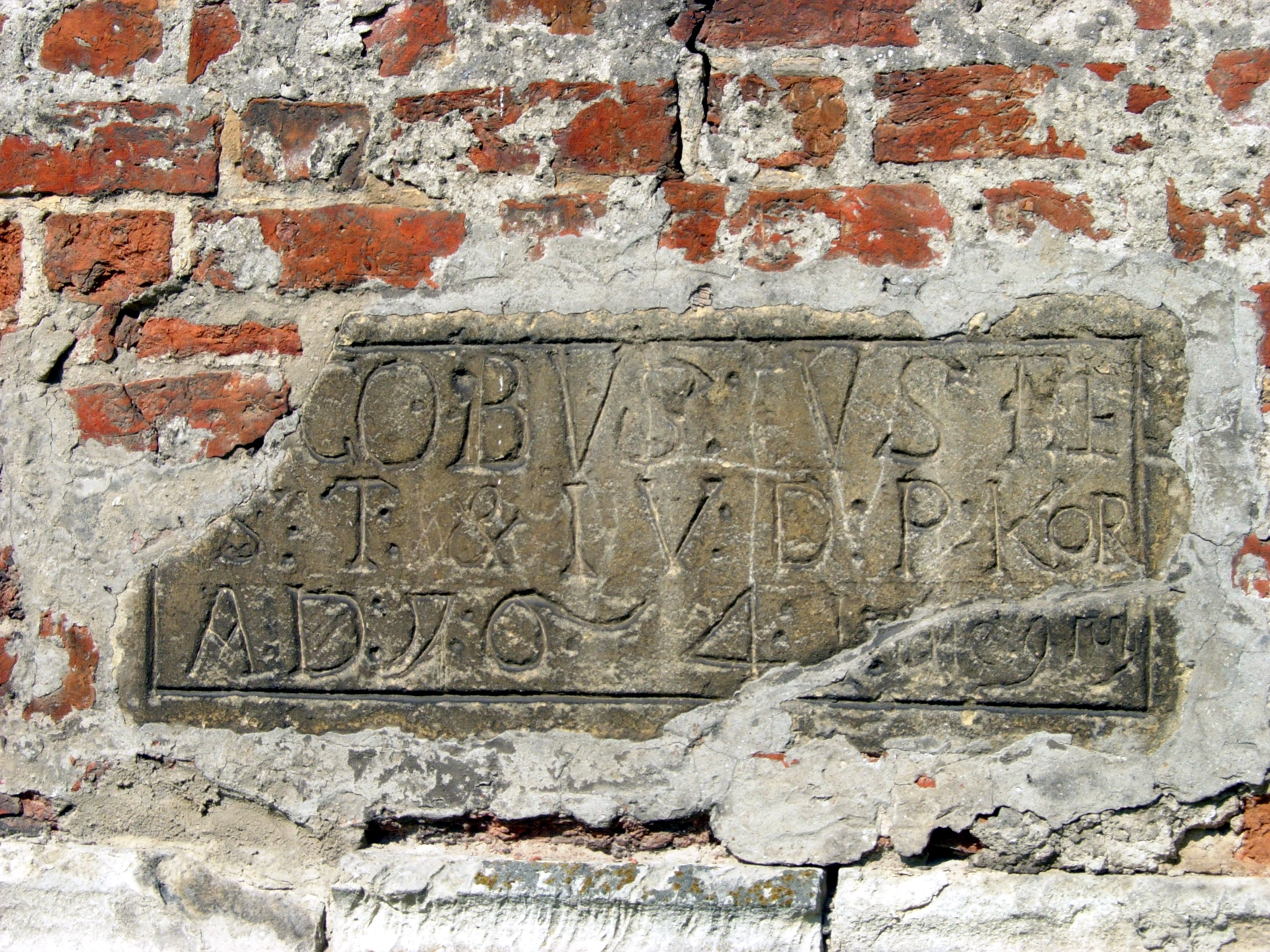 Plaque on the wall of Saint Nicholas church in Stary Korczyn, Poland